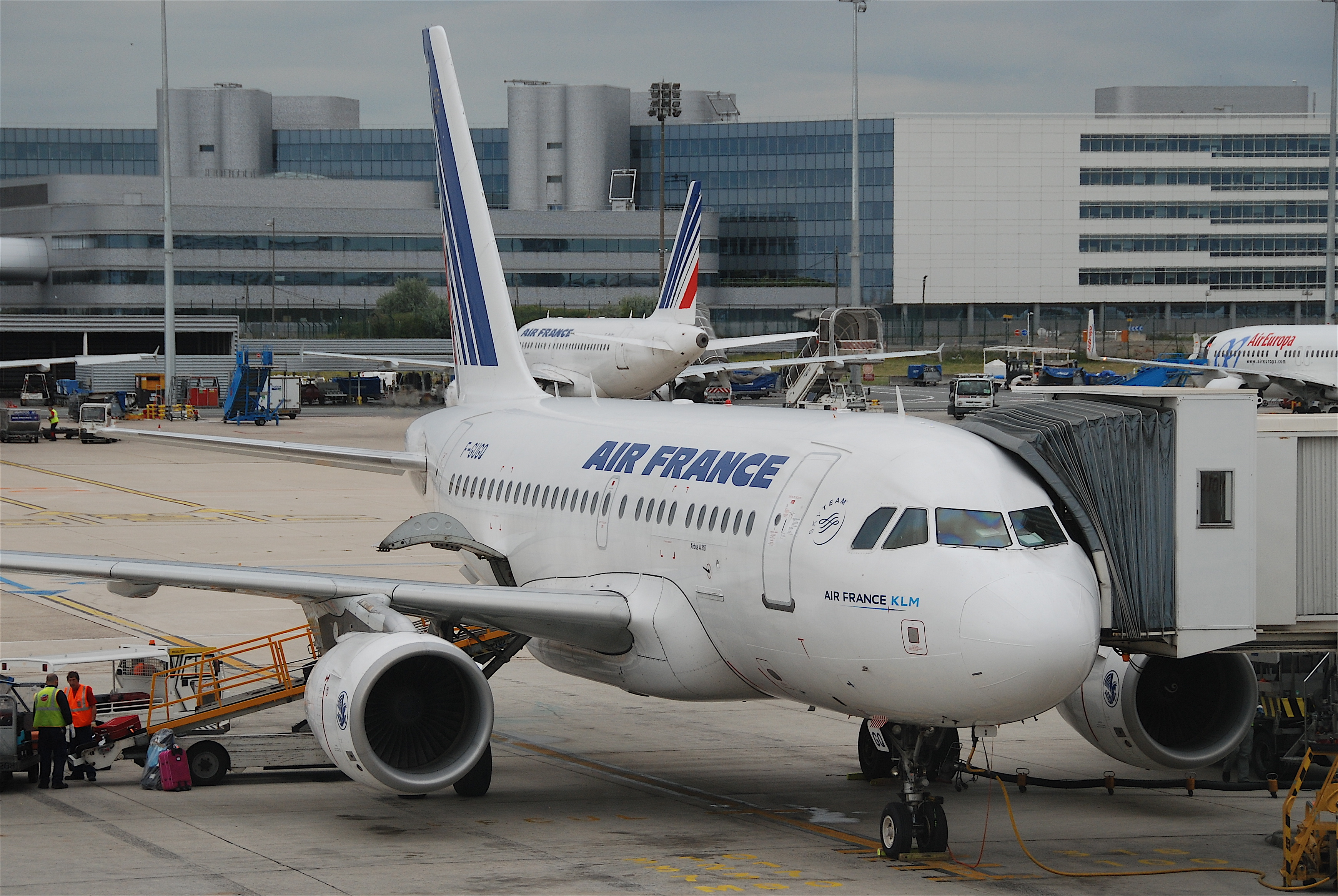 Air France Airbus A318-111; F-GUGQ@CDG;10.07.2011/605ho